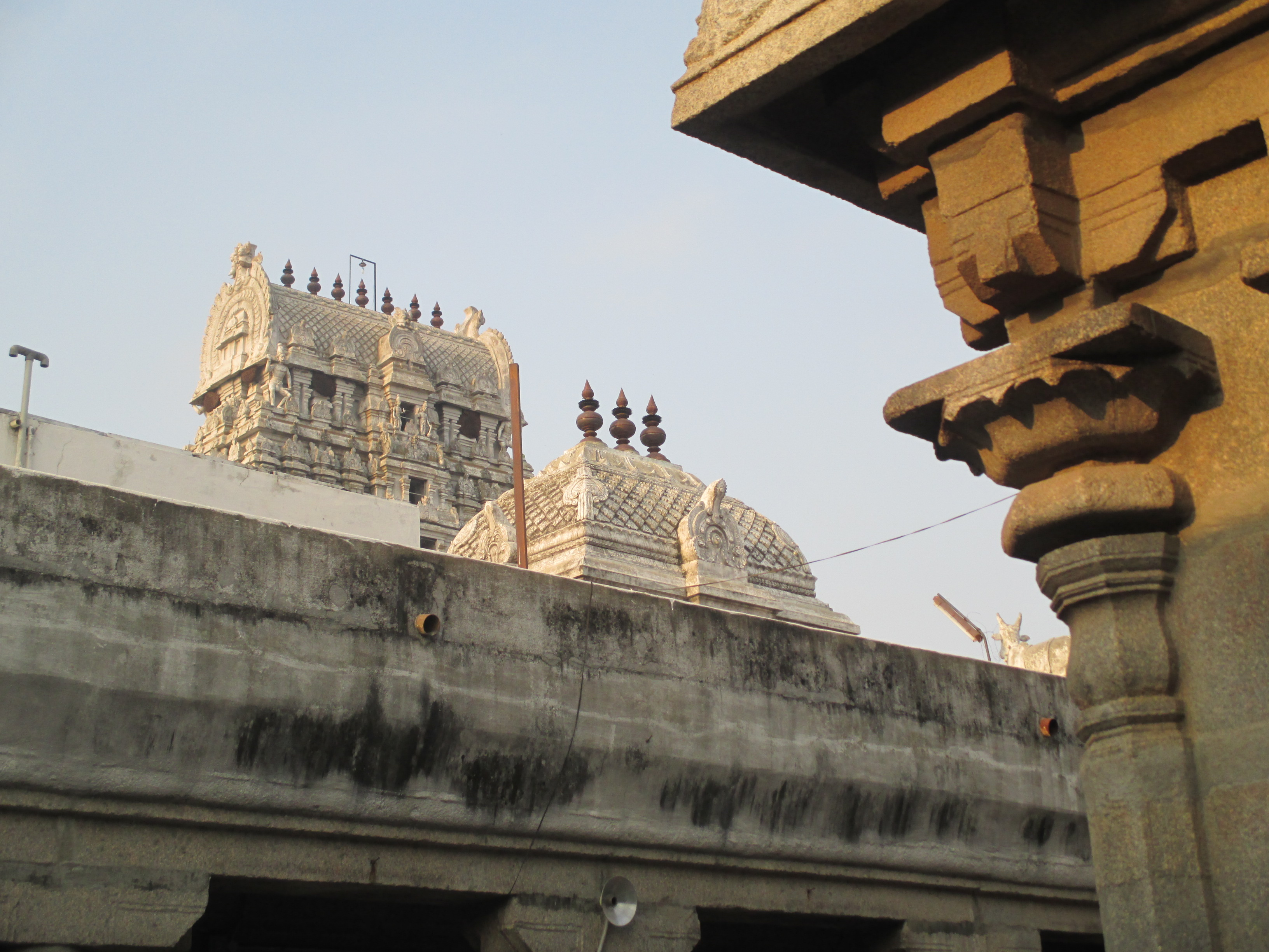 Atulya Nadheswarar Temple